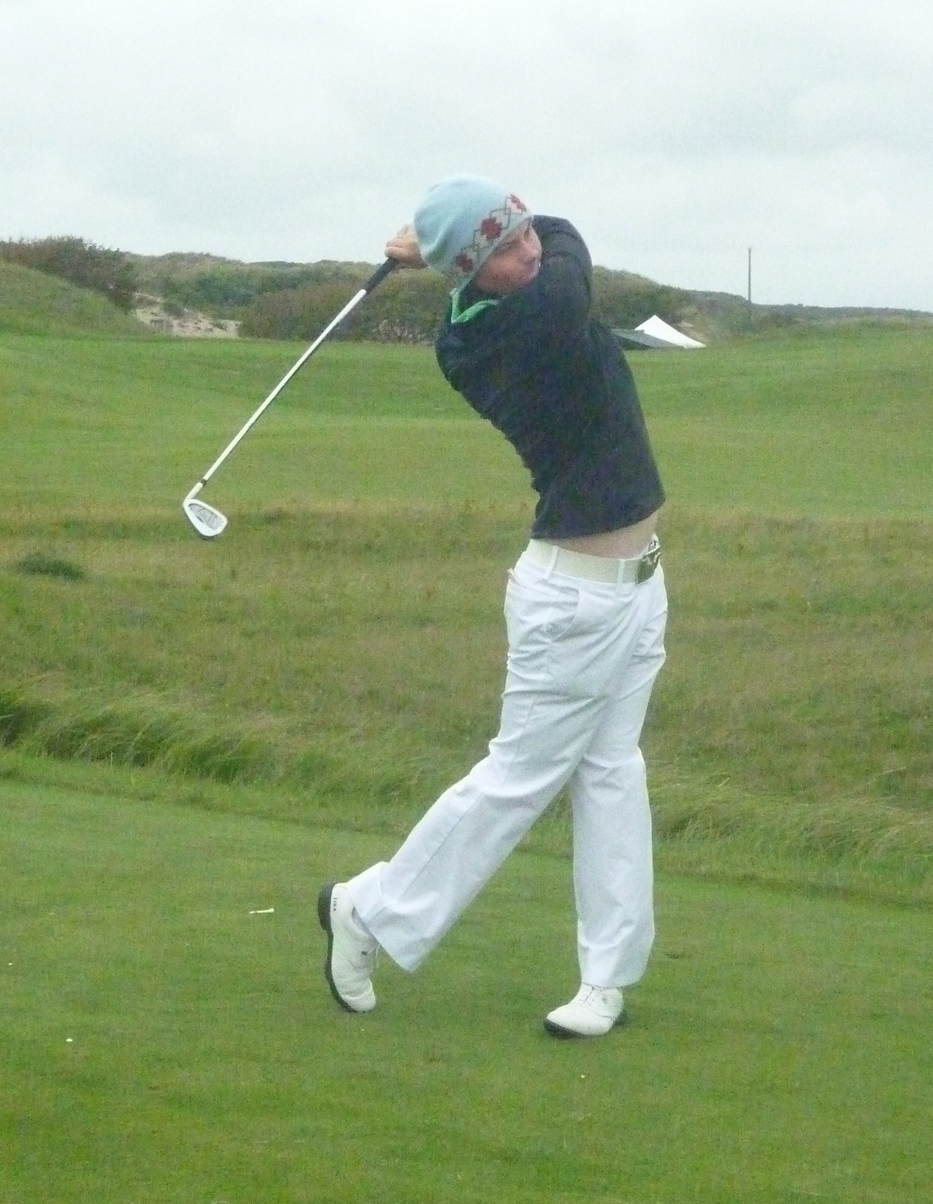 Lisa Maguire winning the European Championship at Noordwijk GC, Holland